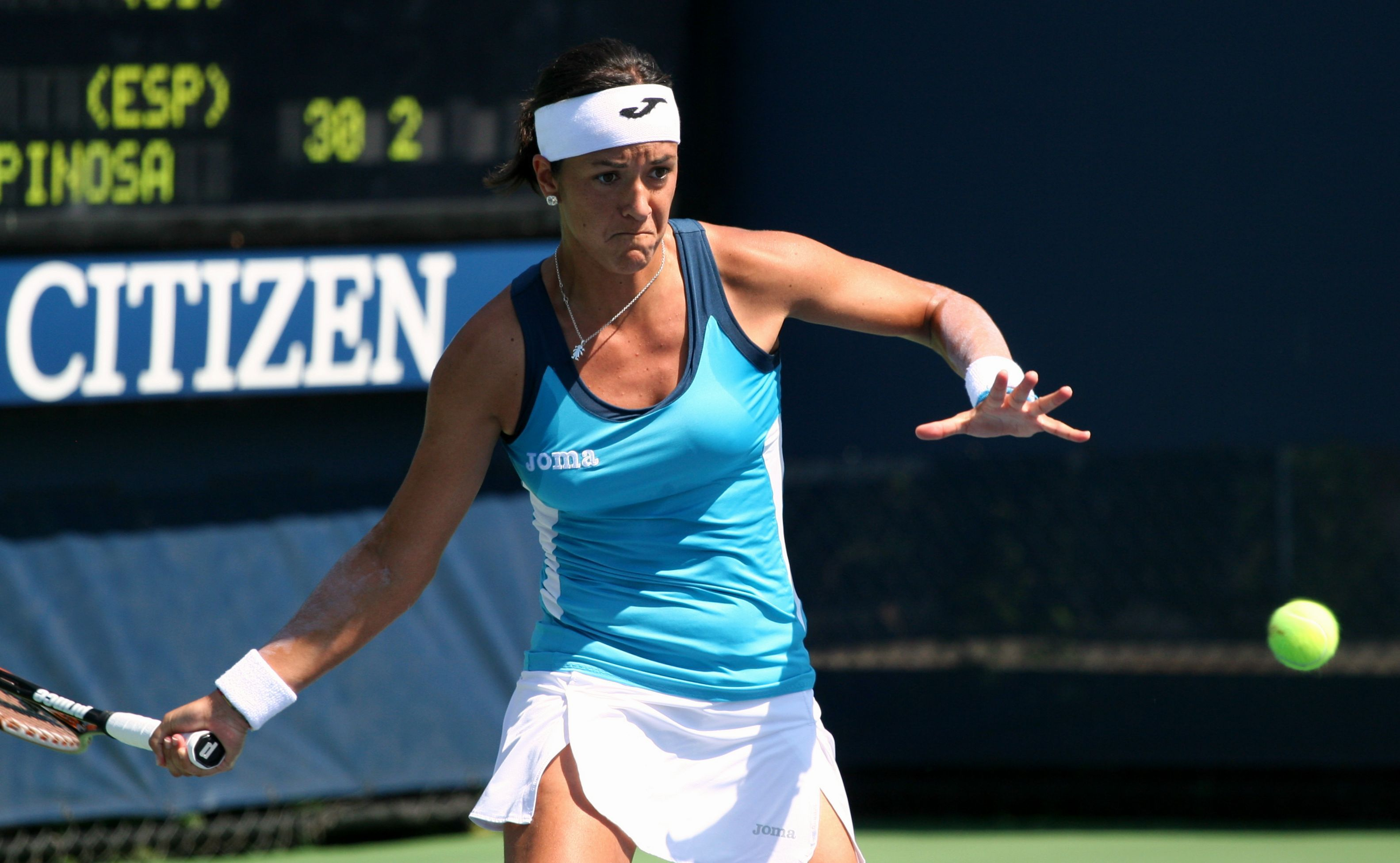 Sílvia Soler Espinosa at the U.S. Open, Thursday, Sept. 1, 2011